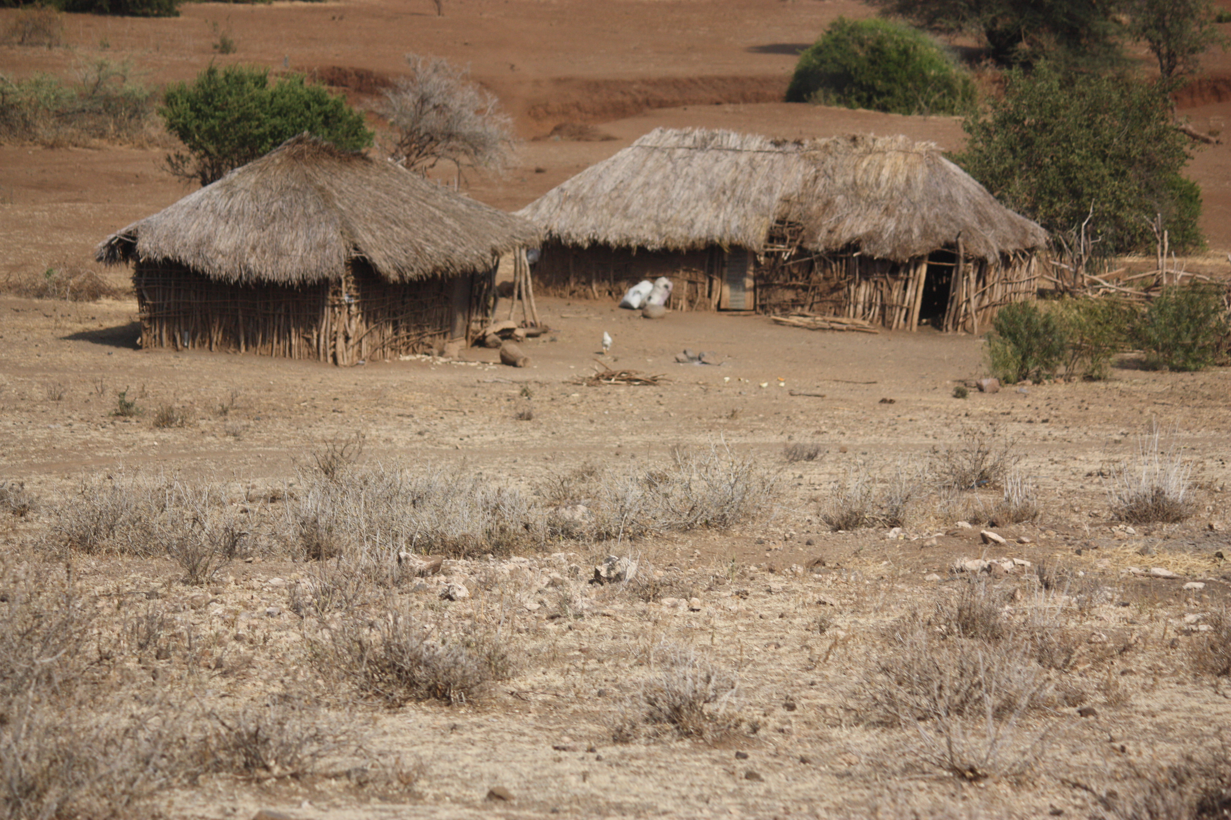 Datoga (Datooga) village near lake Eyasi, Tanzania